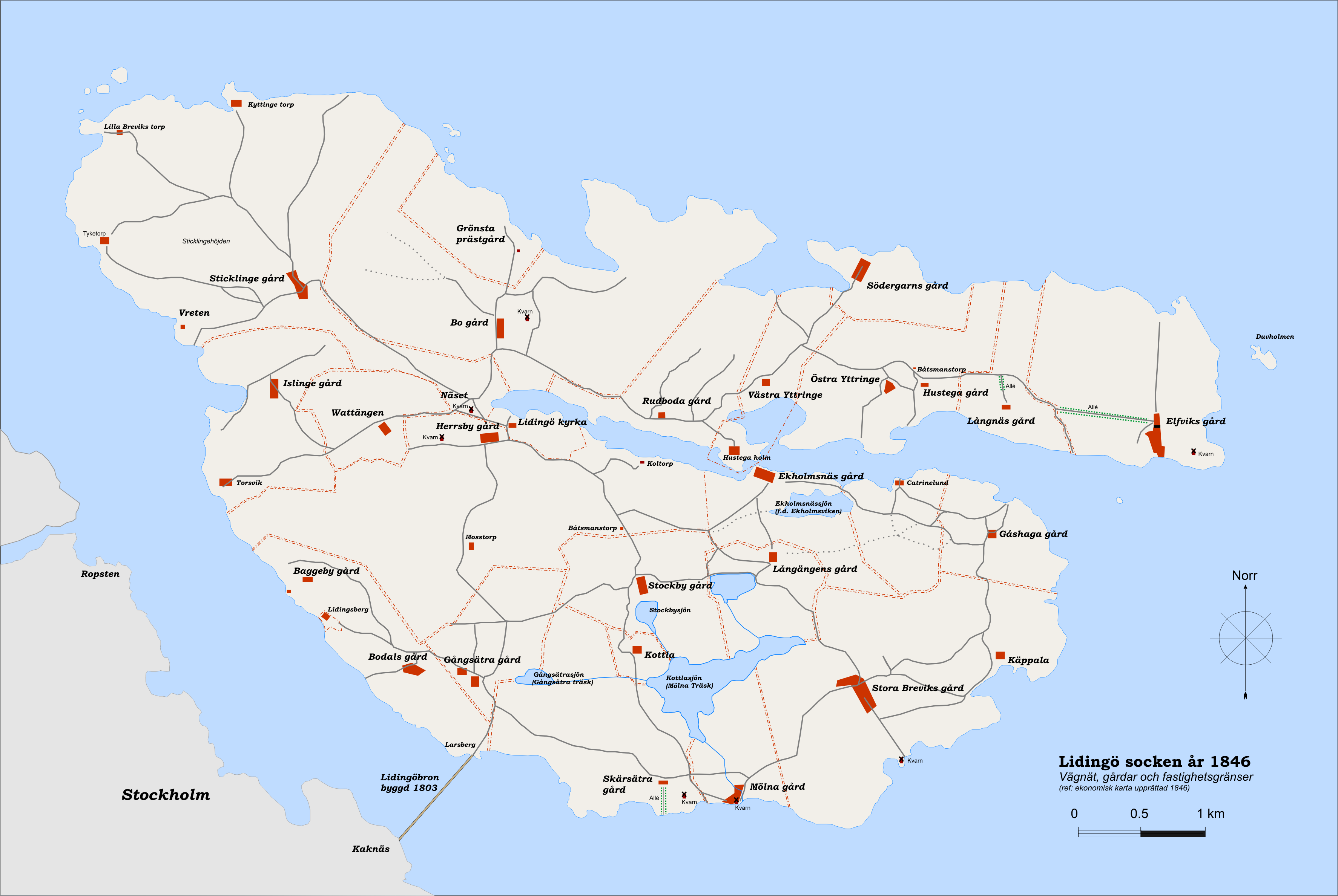 Lidingö, Sweden, year 1846. Roads and larger farms.